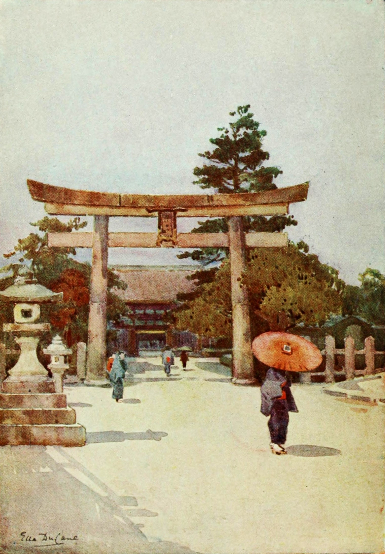 pg 16 of El Japón.